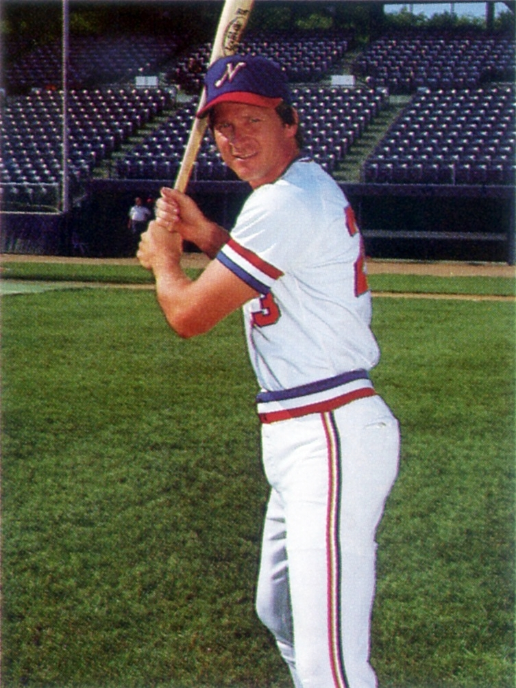 Catcher Don Werner of the 1985 Nashville Sounds Minor League Baseball team of the American Association